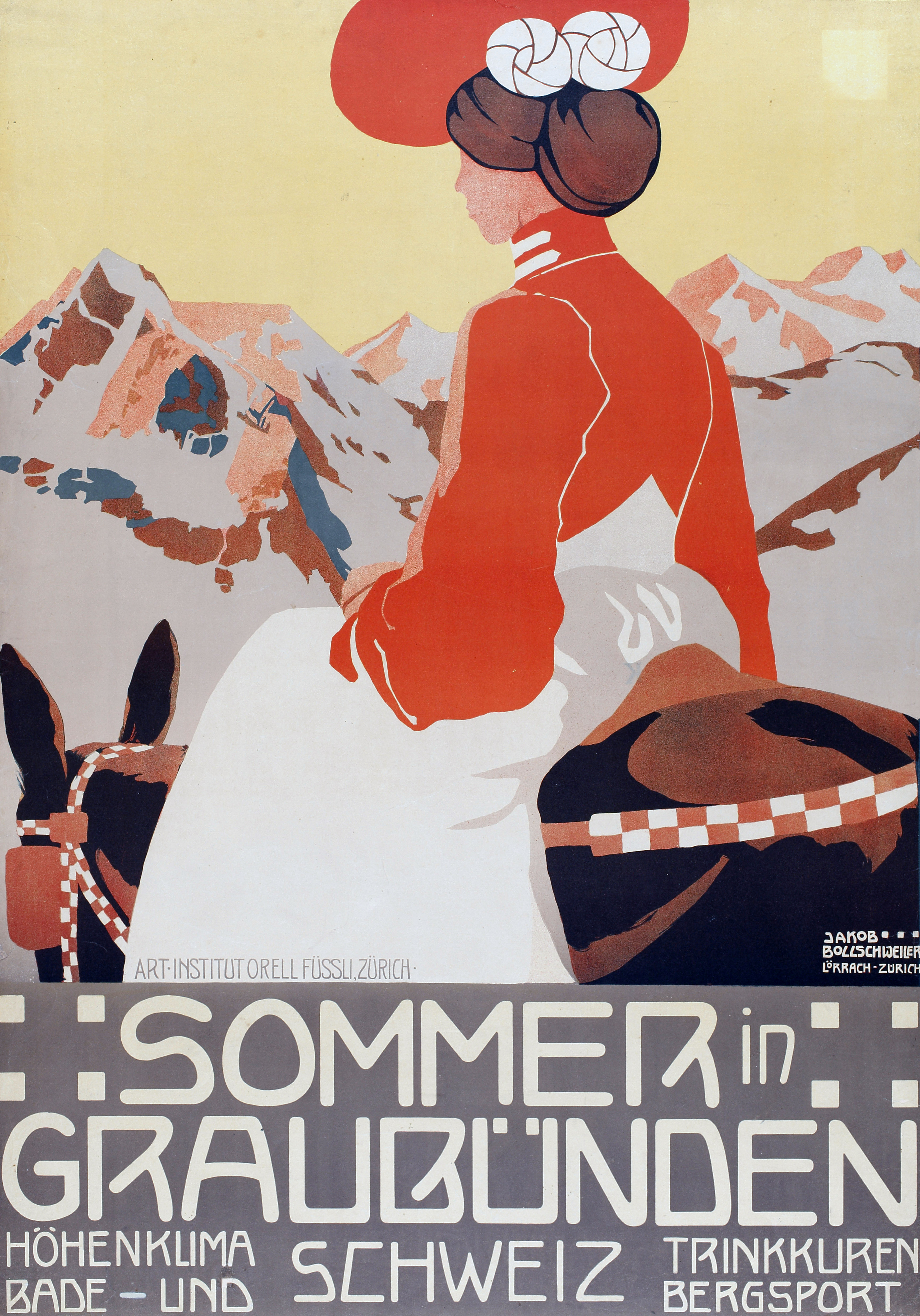 Summer in Graubünden 1905